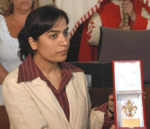 Florance - Italy: Malalai Joya, was awarded with the Golden Fleur-de-Lis (Giglio d'Oro) award.